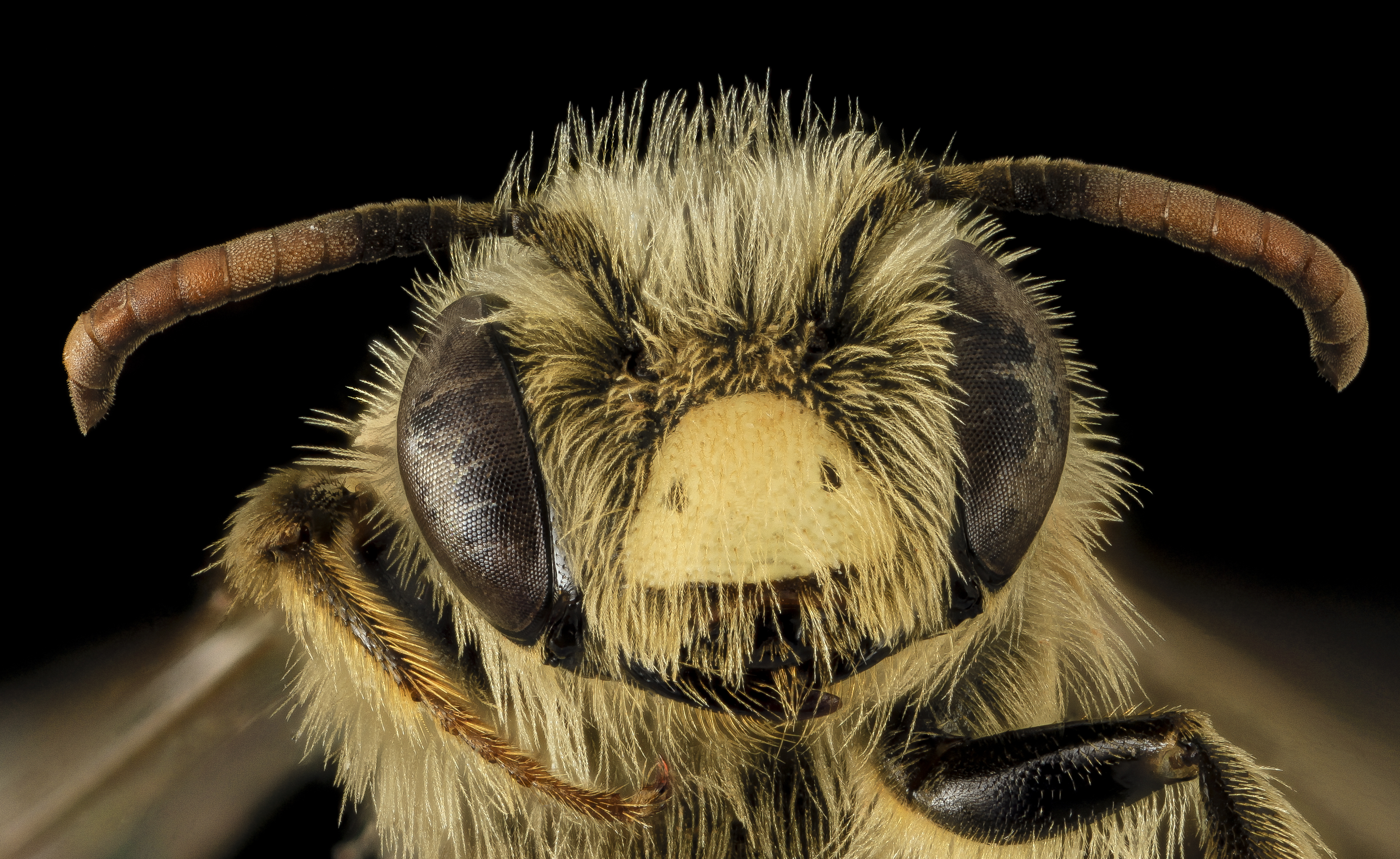 An often uncommon spring Andrena, I associate with the Appalachians, this is a male with a sweet yellow clypeus. Collected by MaLisa Spring near Marietta, Ohio. Photograph by Brooke Alexander. Canon Mark II 5D, Zerene Stacker, Stackshot Sled, 65mm Canon MP-E 1-5X macro lens, Twin Macro Flash in Styrofoam Cooler, F5.0, ISO 100, Shutter Speed 200